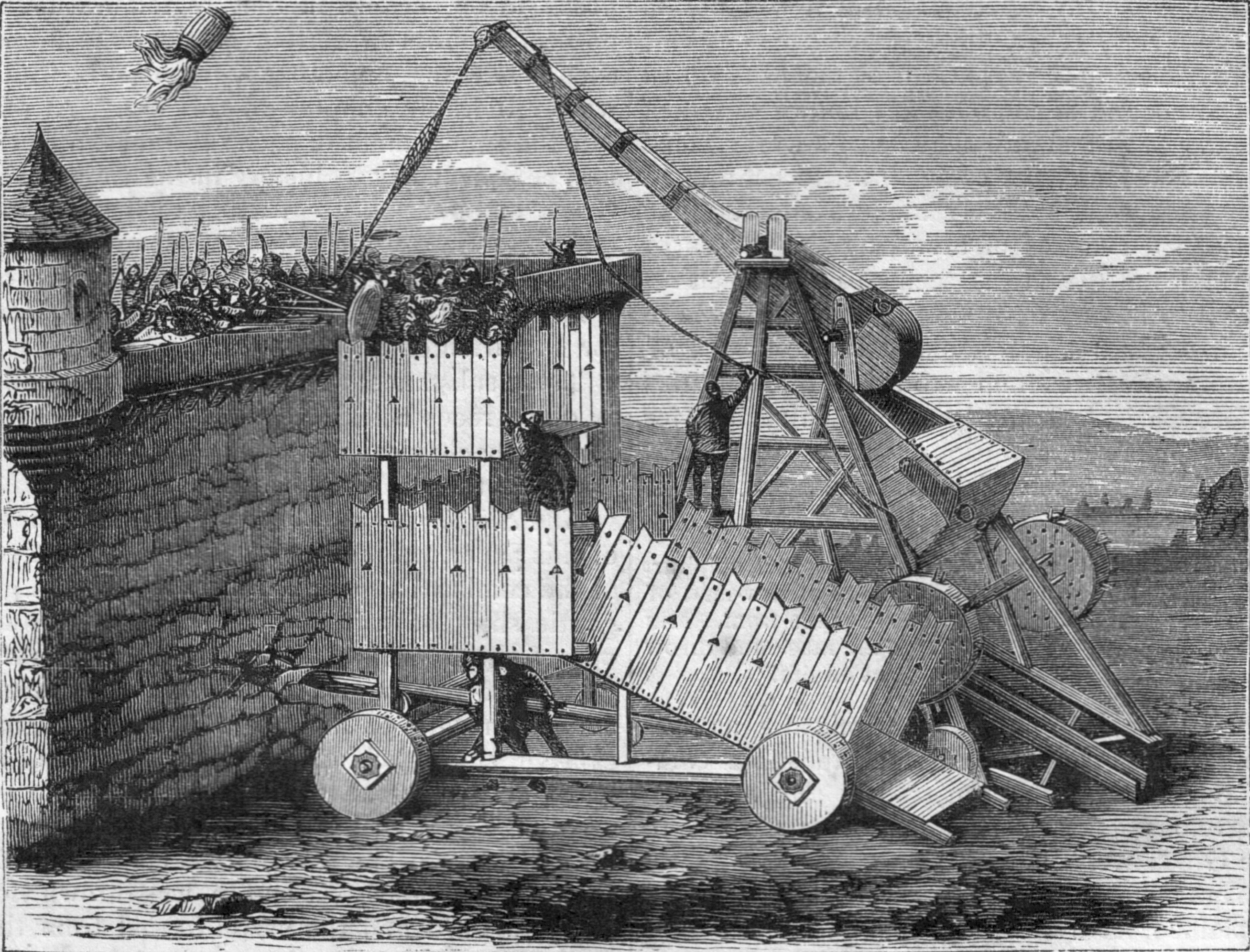 Engraving of thirteenth-century catapult for throwing Greek fire.